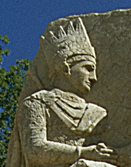 Antiochus I — king of Armenian kingdom of Commagene (70 BC — 38 BC)